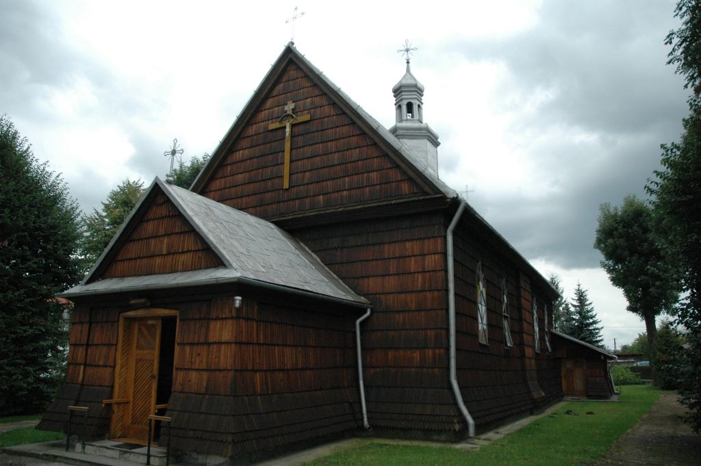 Poland, Medyka - St. Peter and Paul church (wooden church).